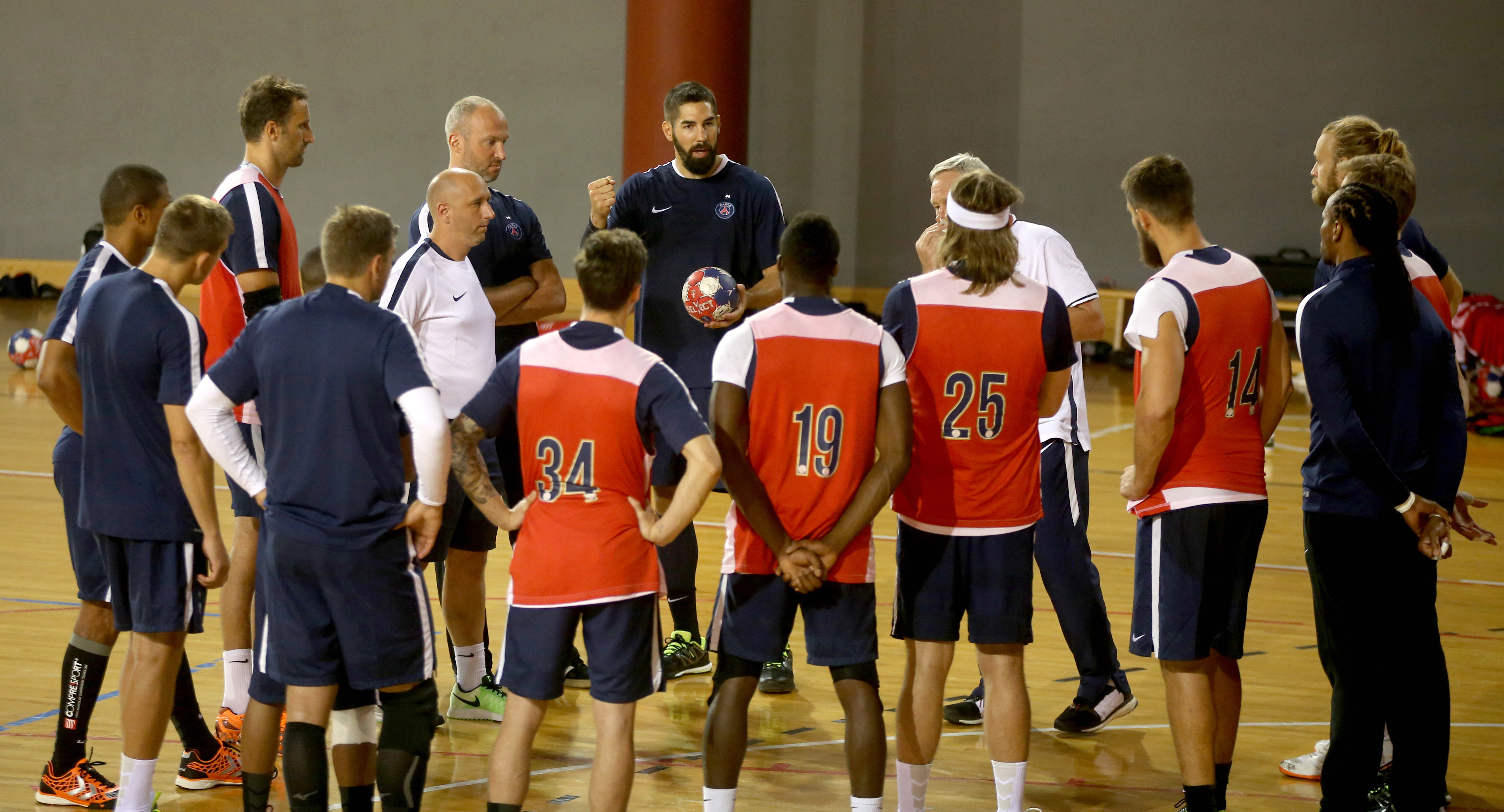 Nikola Karabatic talks to PSG team-mates during their training session at the ASPIRE Academy in Doha.